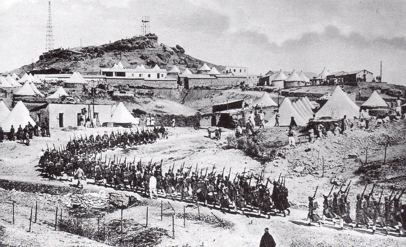 A column of French troops on the move in a tented encampment in Morocco.